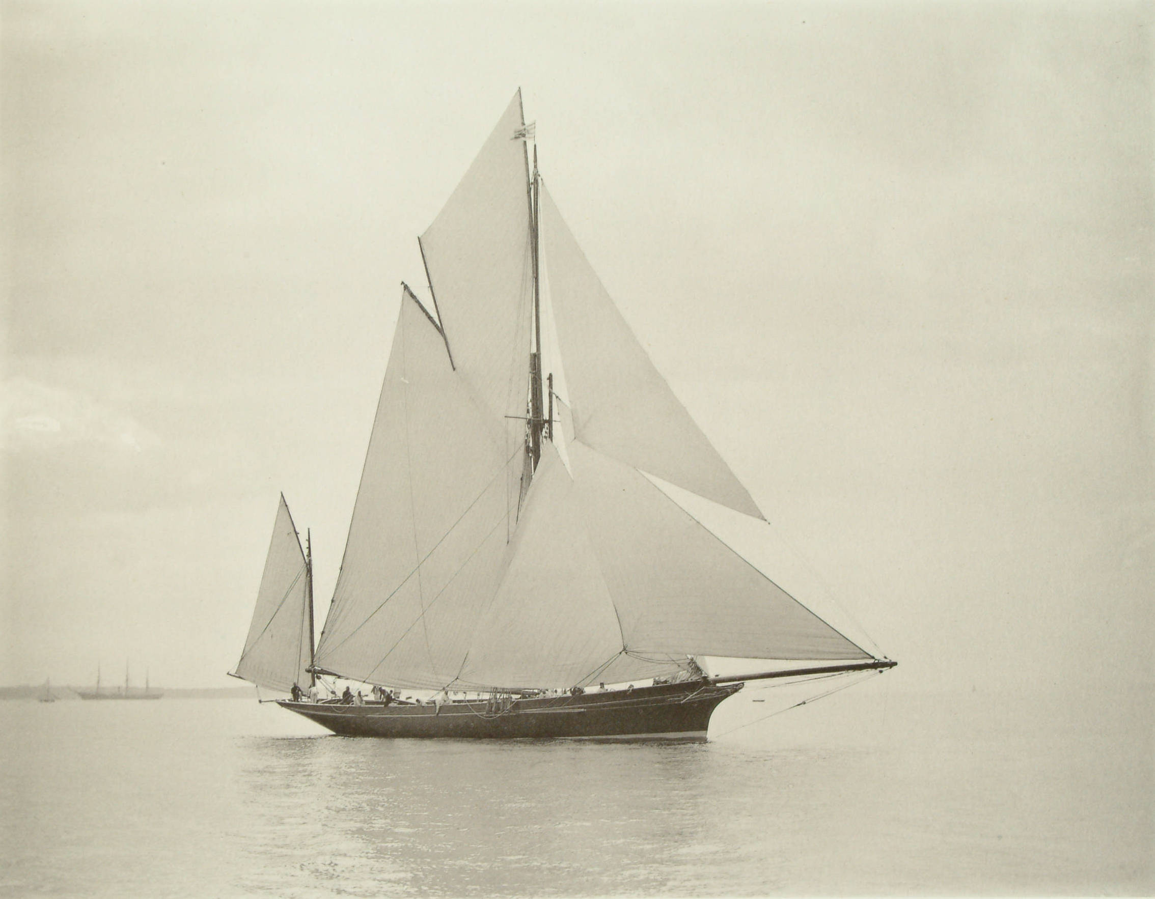 Wendur (George Lennox Watson design, 1883)Col. T.B.C. West's yawl Wendur competed on both sides of the Atlantic ocean in the 1880s.